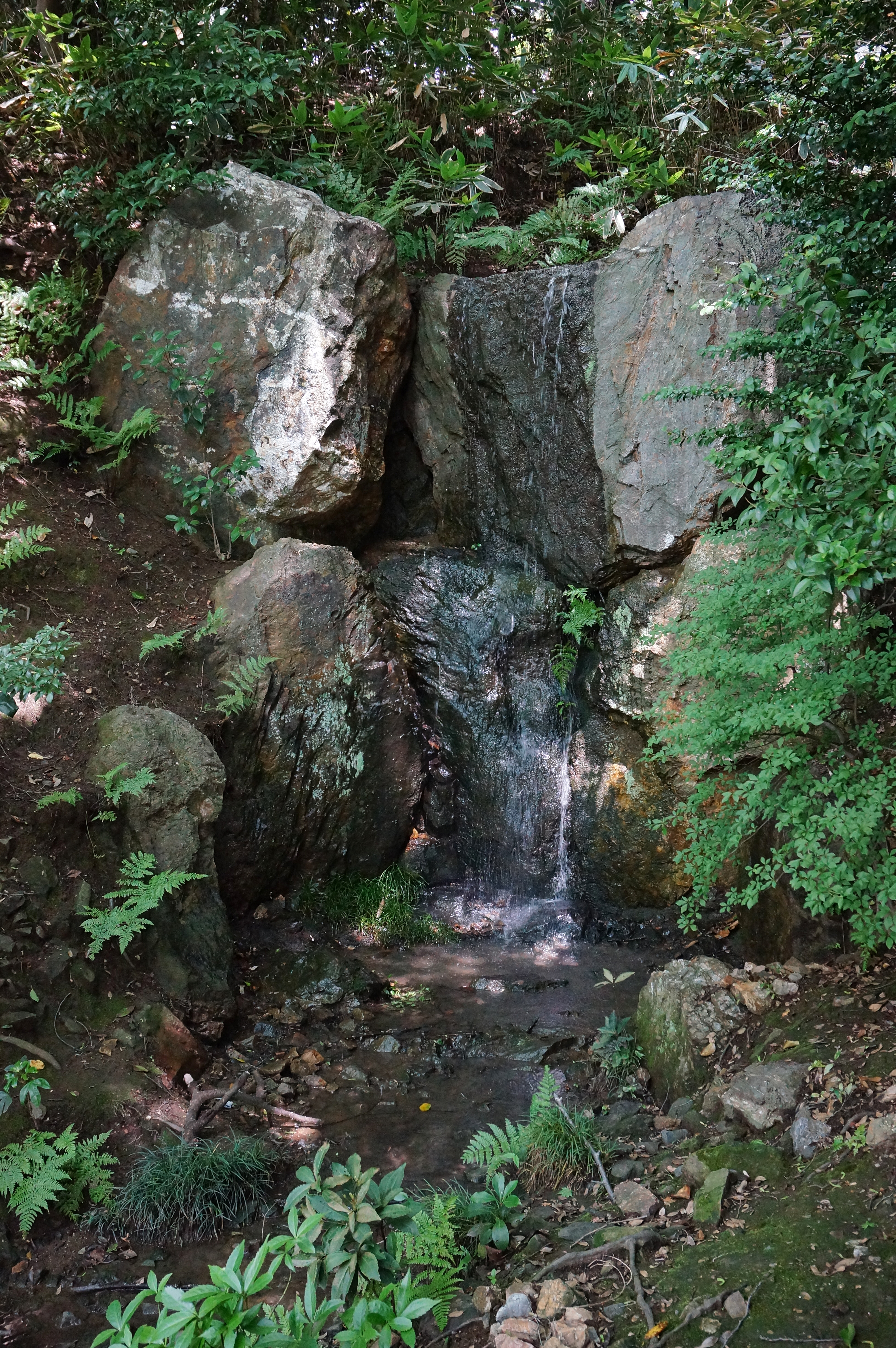 Hōkongō-in in Ukyō-ku, Kyoto, Kyoto Prefecture, Japan. Seijo-no-taki of Hōkongō-in Garden that is an extremely important cultural asset of Japan "Special Places of Scenic Beauty"